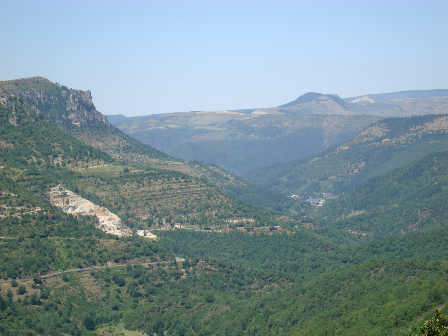 Cévennes' Landscape taken from the Corniche road (Lozère)